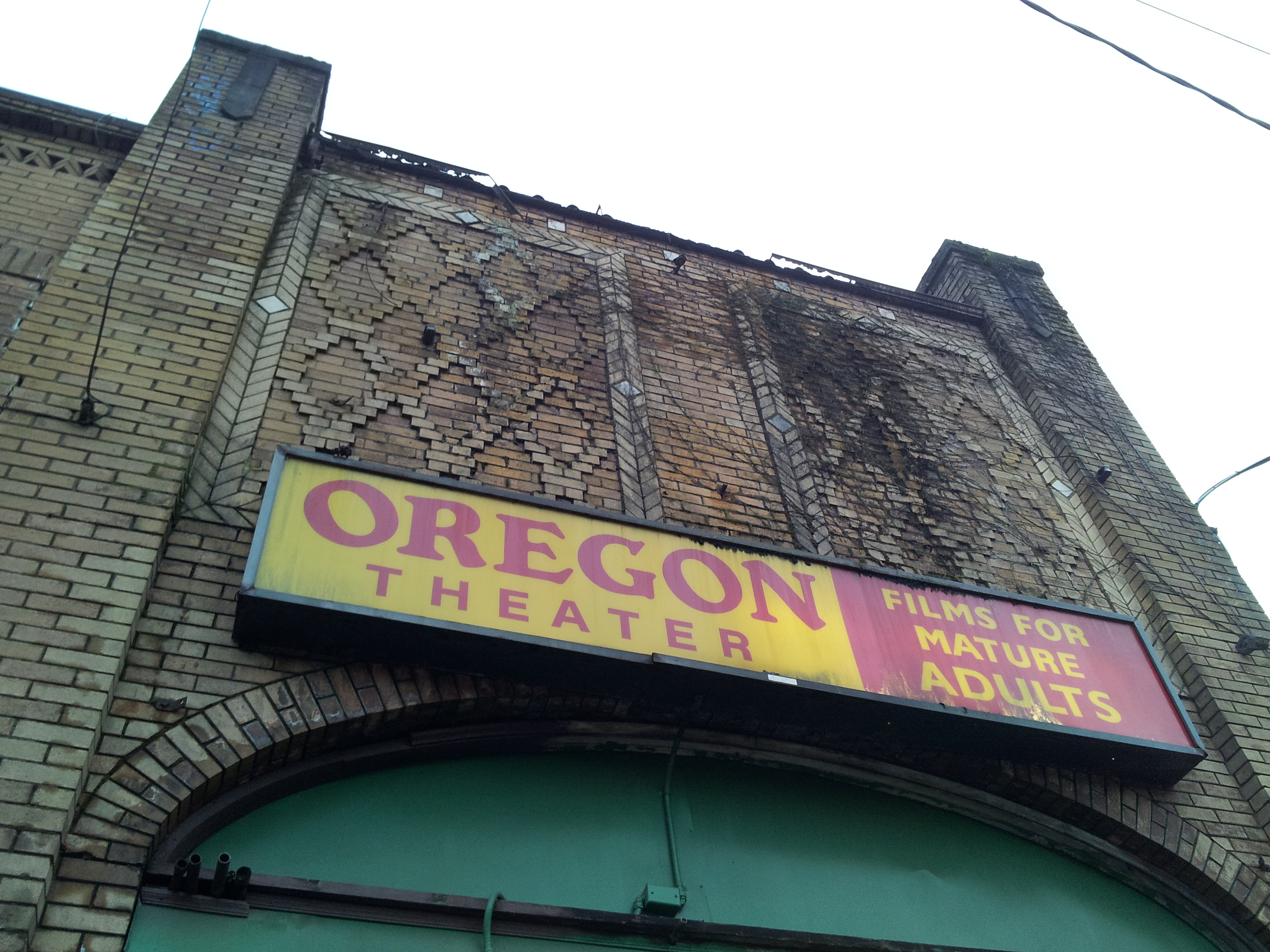 Oregon Theatre, Portland (2014)